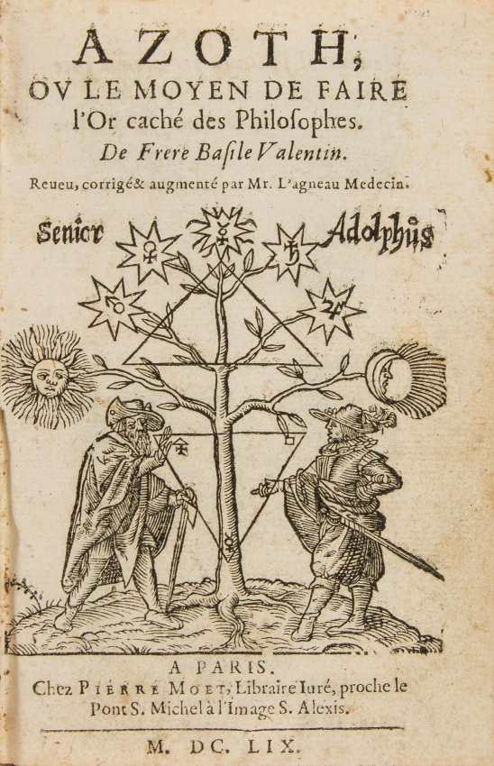 Cover of the book "Azoth" (1659), of Basilius Valentinus or Basil Valentine, who was allegedly a 15th-century alchemist. National Library. Madrid. Spain.